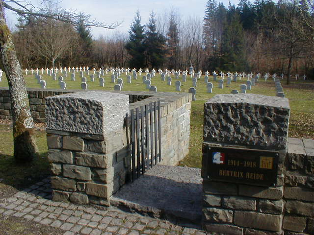 Military cemetery of Luchy (Bertrix) Walon: cimintire militaire di Luchi (Tchonveye) (portrait saetchî pa L. Mahin).